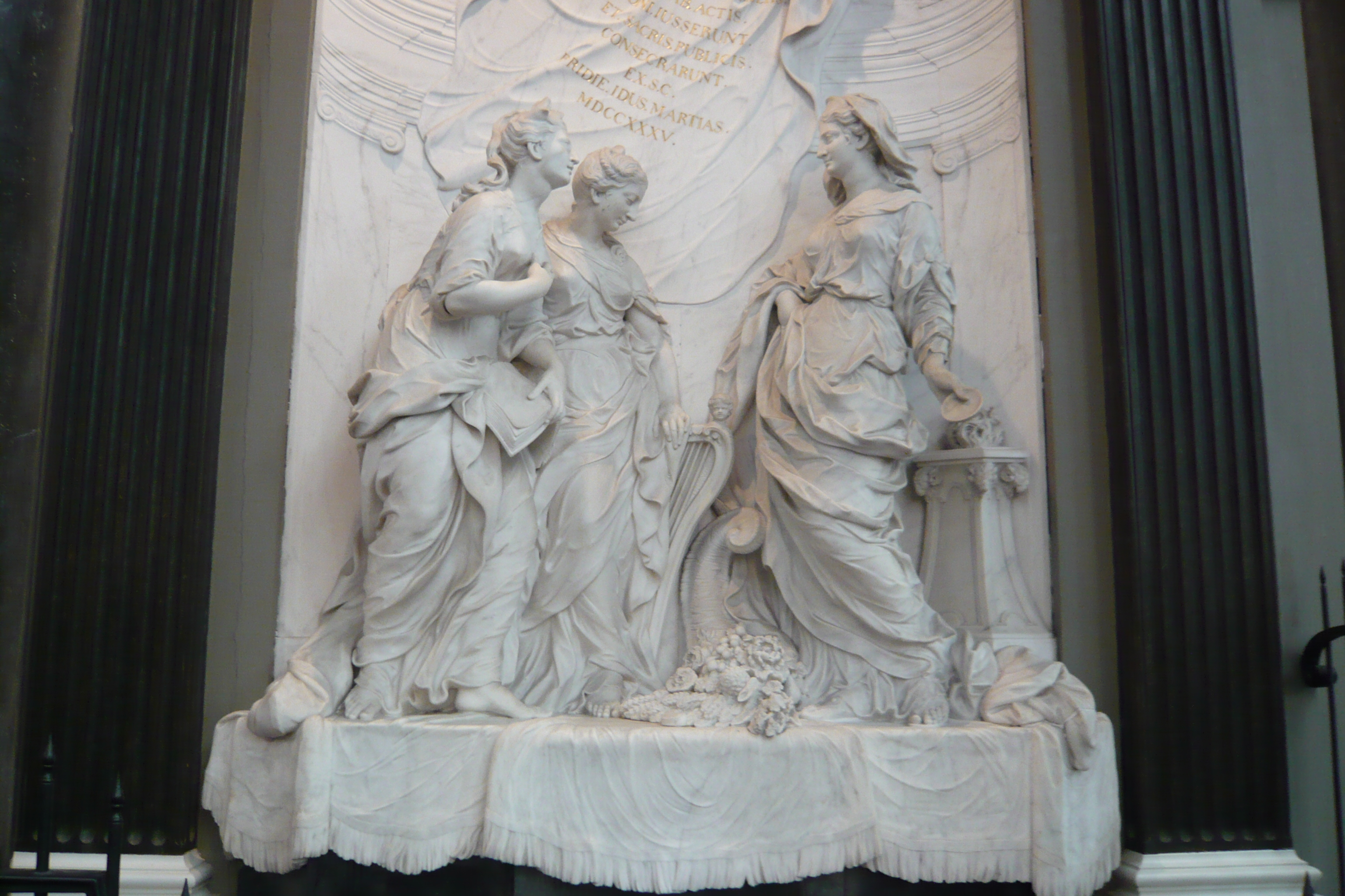 Jan Baptist Xavery - relief St Bavochurch, Grote markt, Haarlem, 1739 2010-09-12 (photo)